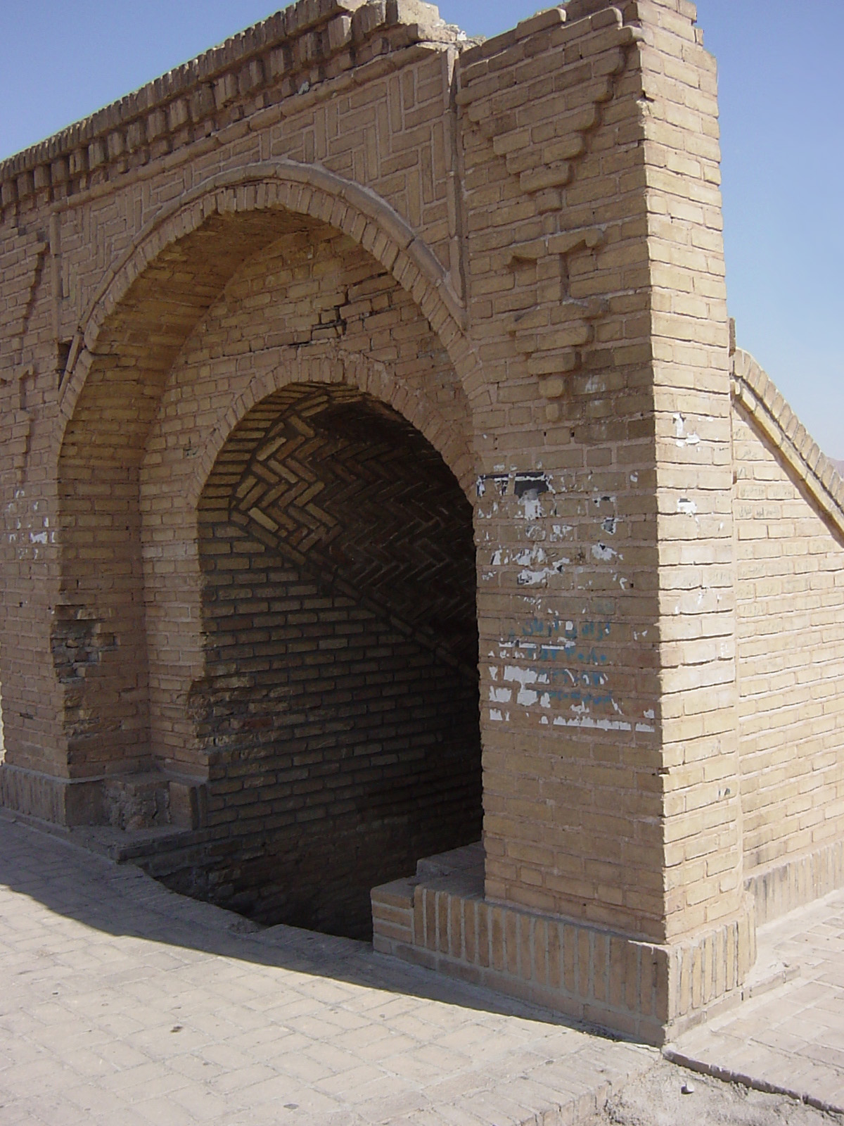 Old Reservoir in Aradan County, Semnan Province, Iran